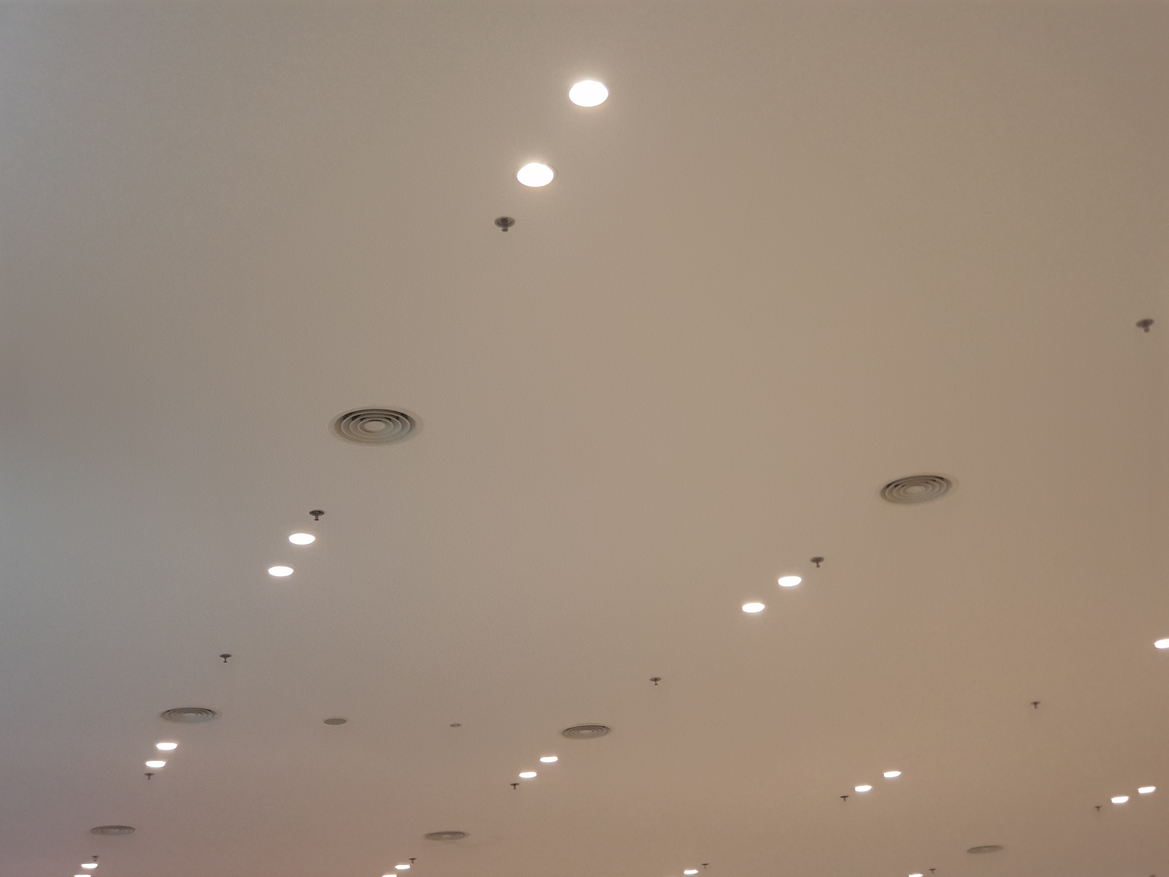 Systems of Mandalay Convention Centre